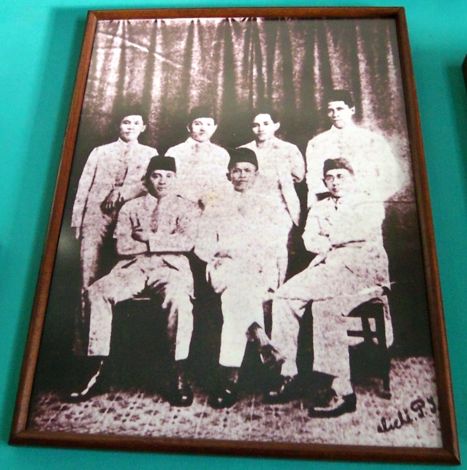 An old picture of Partai Nasional Indonesia prior the year of 1928